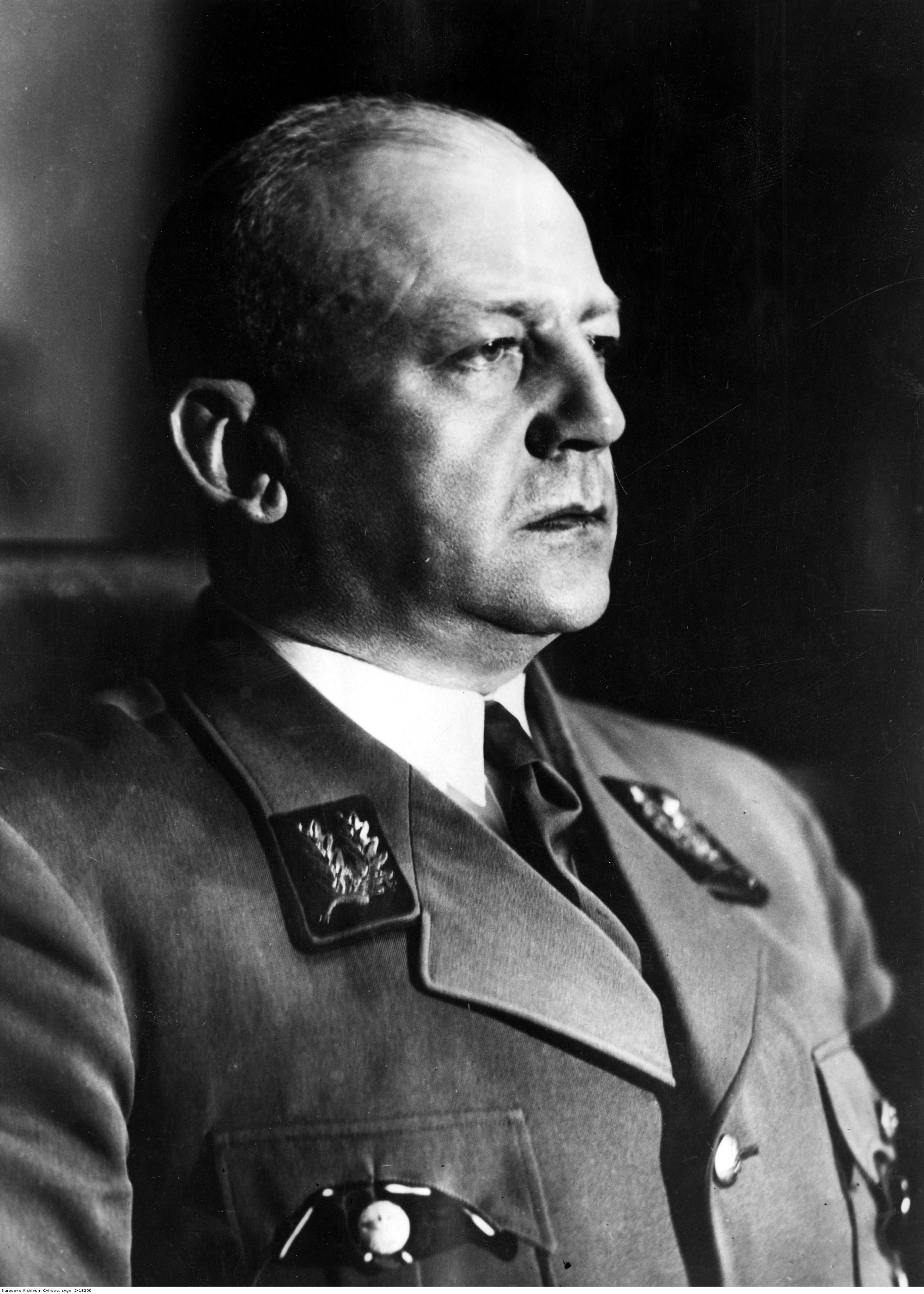 Adolf Wagner. Portrait photography.